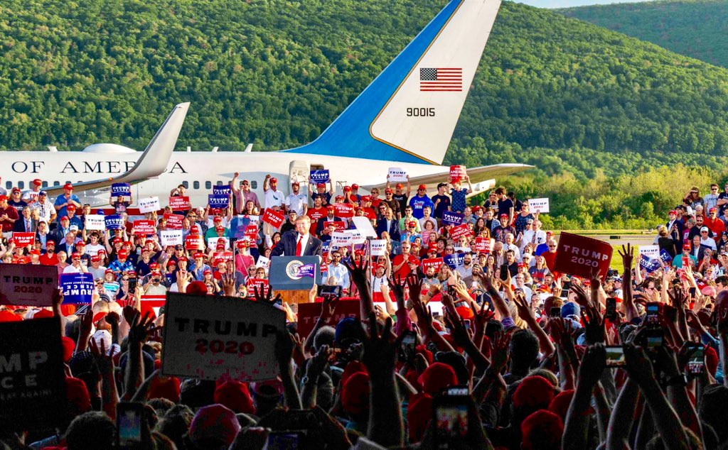 Donald J. Trump holding a rally in Mountoursville, Pennsylvania, on May 20, 2019